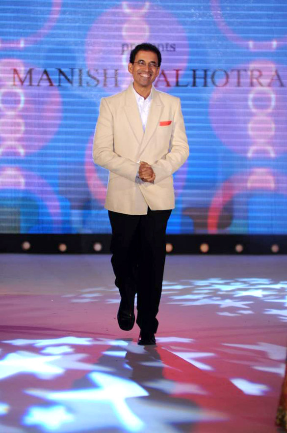 Harsha Bhogle walks for Manish Malhotra & Shaina NC's show for CPAA